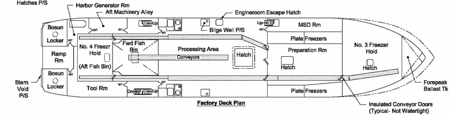 Plan view of FV Alaska Ranger factory deck. (FO: fuel oil; FW: freshwater; MSD: marine sanitation device; P/S: port and starboard; Tk: tank; WT: watertight)